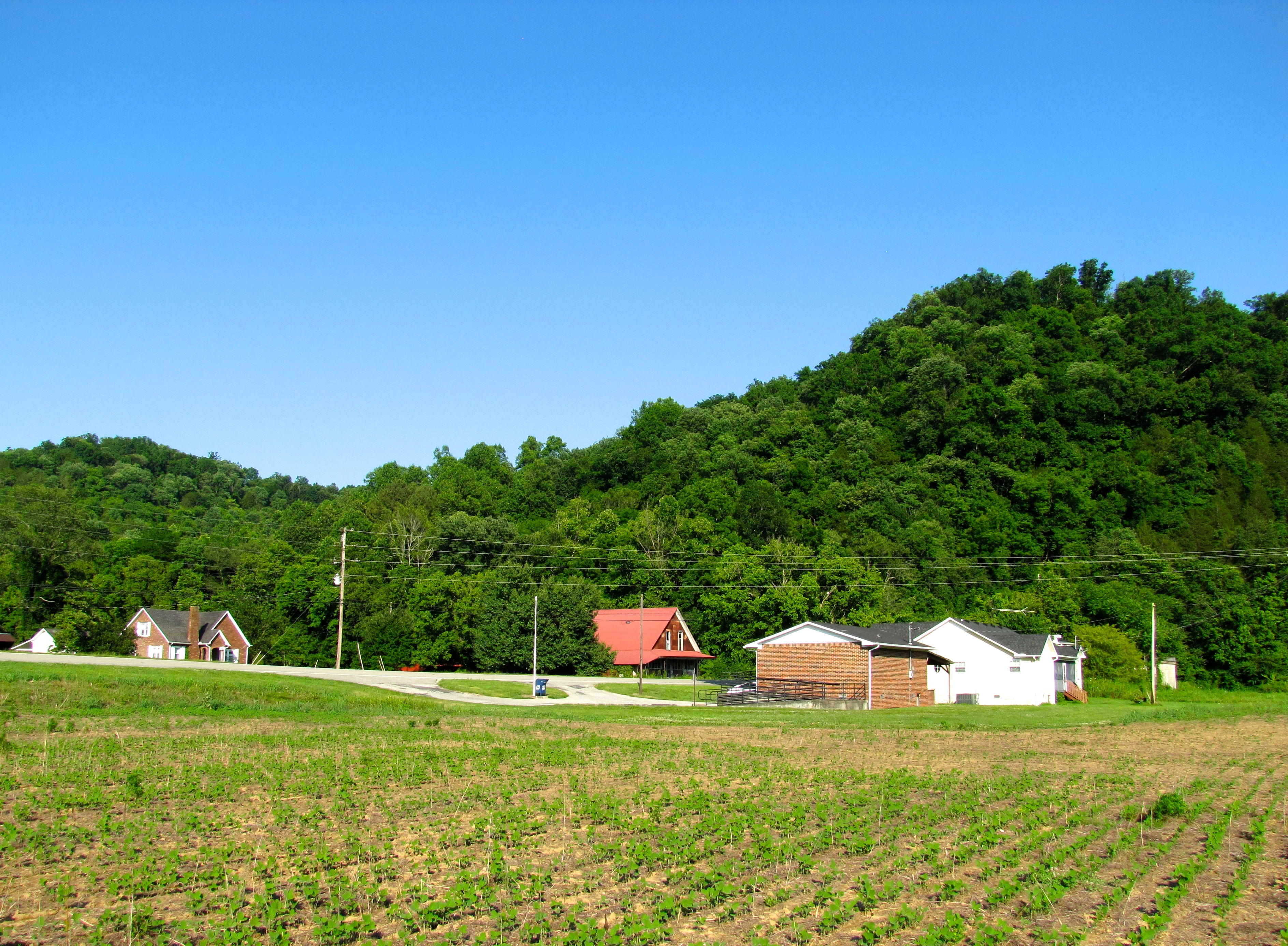 Post office (right of center) and other buildings along State Route 56 in Whitleyville, Tennessee, United States.